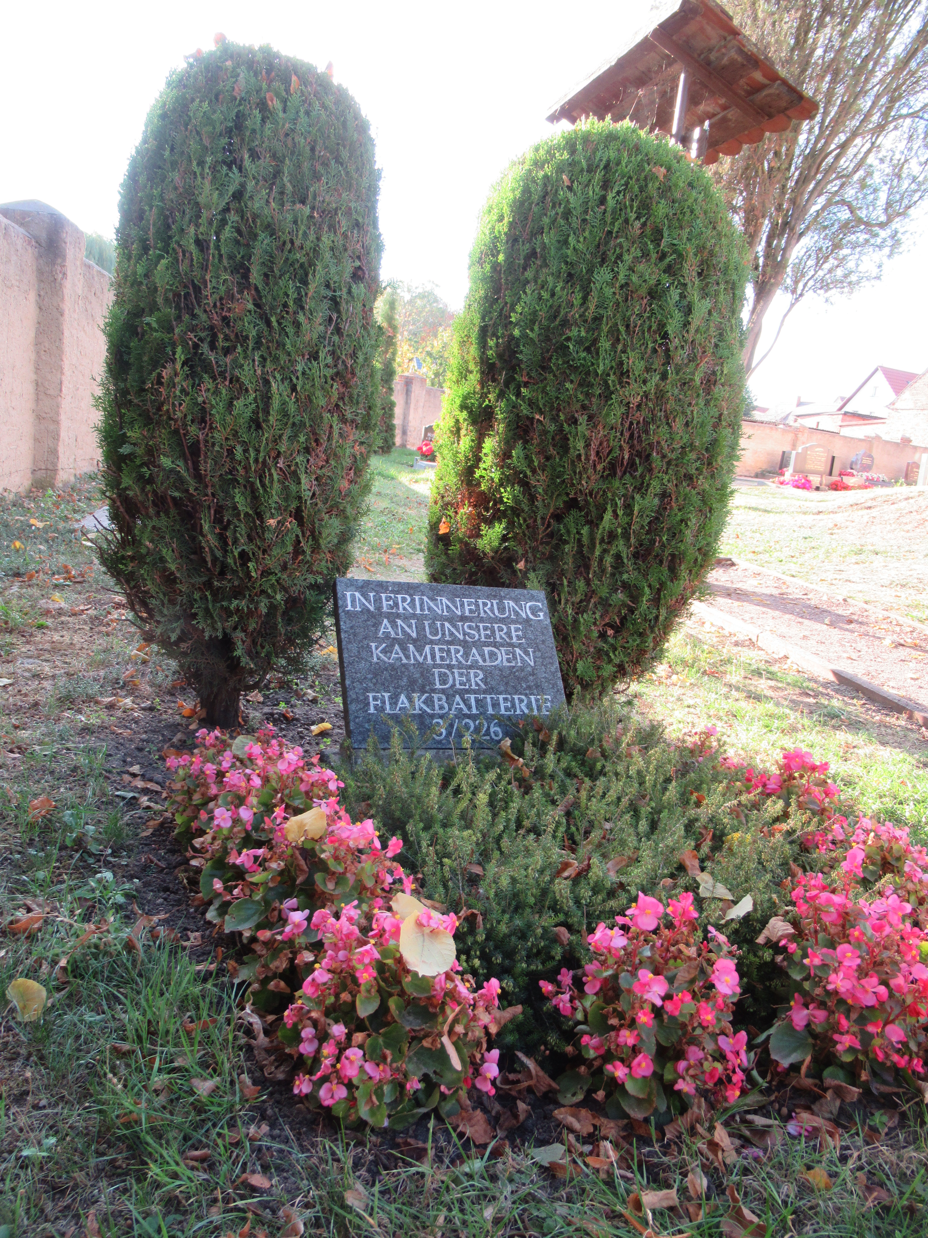 Soldiers fallen in 1944 in Dörstewitz near Schkopau